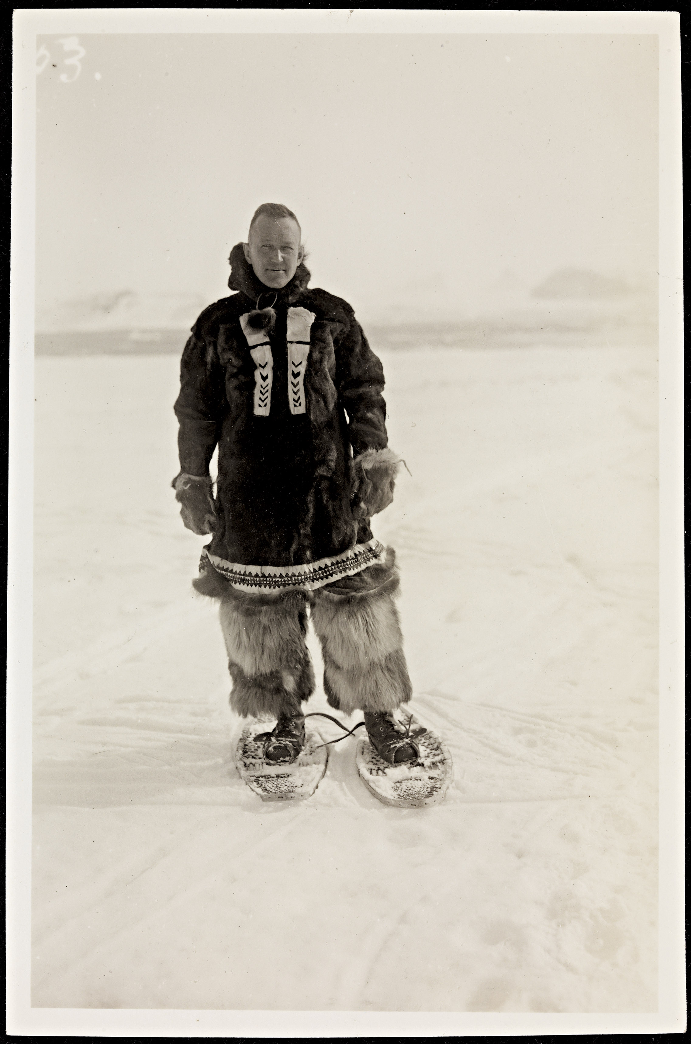 Tittel / Title: Lincoln Ellsworth på truger Beskrivelse / Description: Gelatin papirpositiv. Dato / Date: 1926 Fotograf / Photographer: Paul Berge (antagelig) Sted / Place: Svalbard, Ny-Ålesund Eier / Owner Institution: Nasjonalbiblioteket / National Library of Norway Lenke / Link: Bildesignatur / Image Number: bldsa_NPRA0611